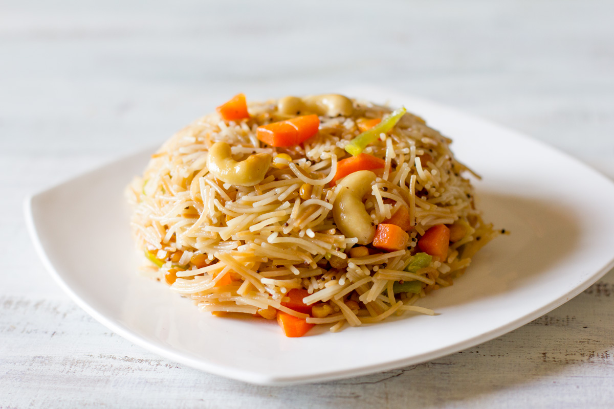 Seviyan ka Upma